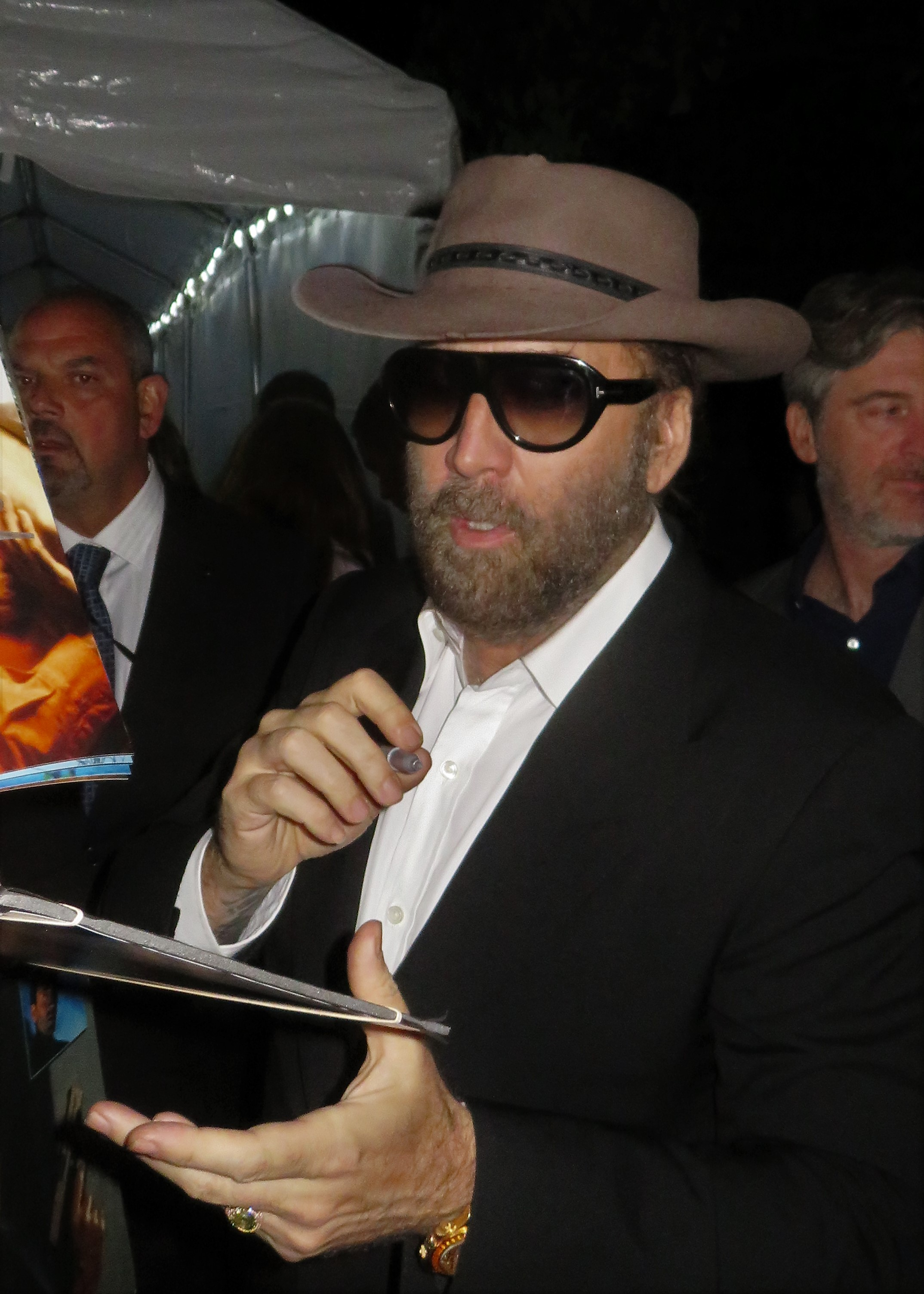 Nicolas Cage at the premiere of Color Out of Space, 2019 Toronto Film Festival